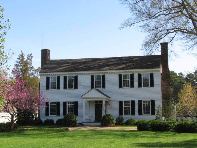 Depicted place: Bassett Hall